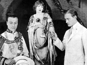 Still of the 1921 Cecil B. DeMille directed film Fool's Paradise (1921) starring Mildred Harris, John Davidson and Conrad Nagel. Still taken from Silent Ladies & Gents First shown pre-1923.